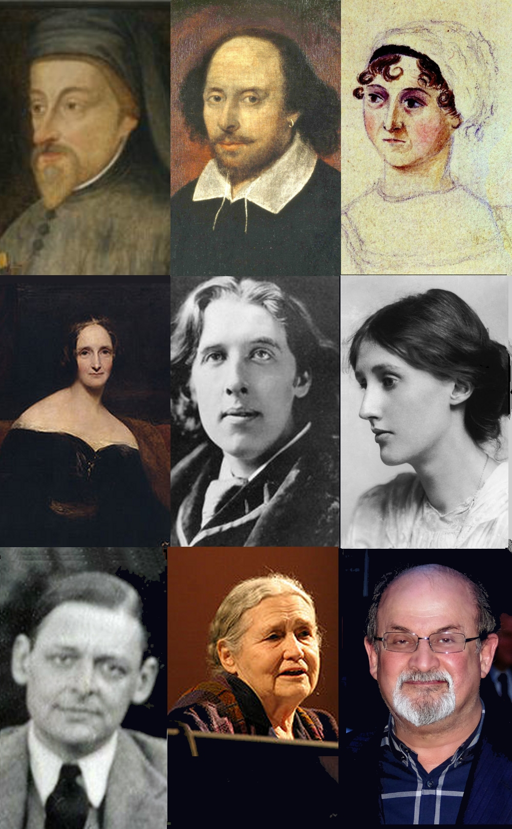 Geoffrey Chaucer, William Shakespeare, Jane Austen, Mary Shelley, Oscar Wilde, Virginia Woolf, T. S. Eliot, Doris Lessing, Salman Rushdie